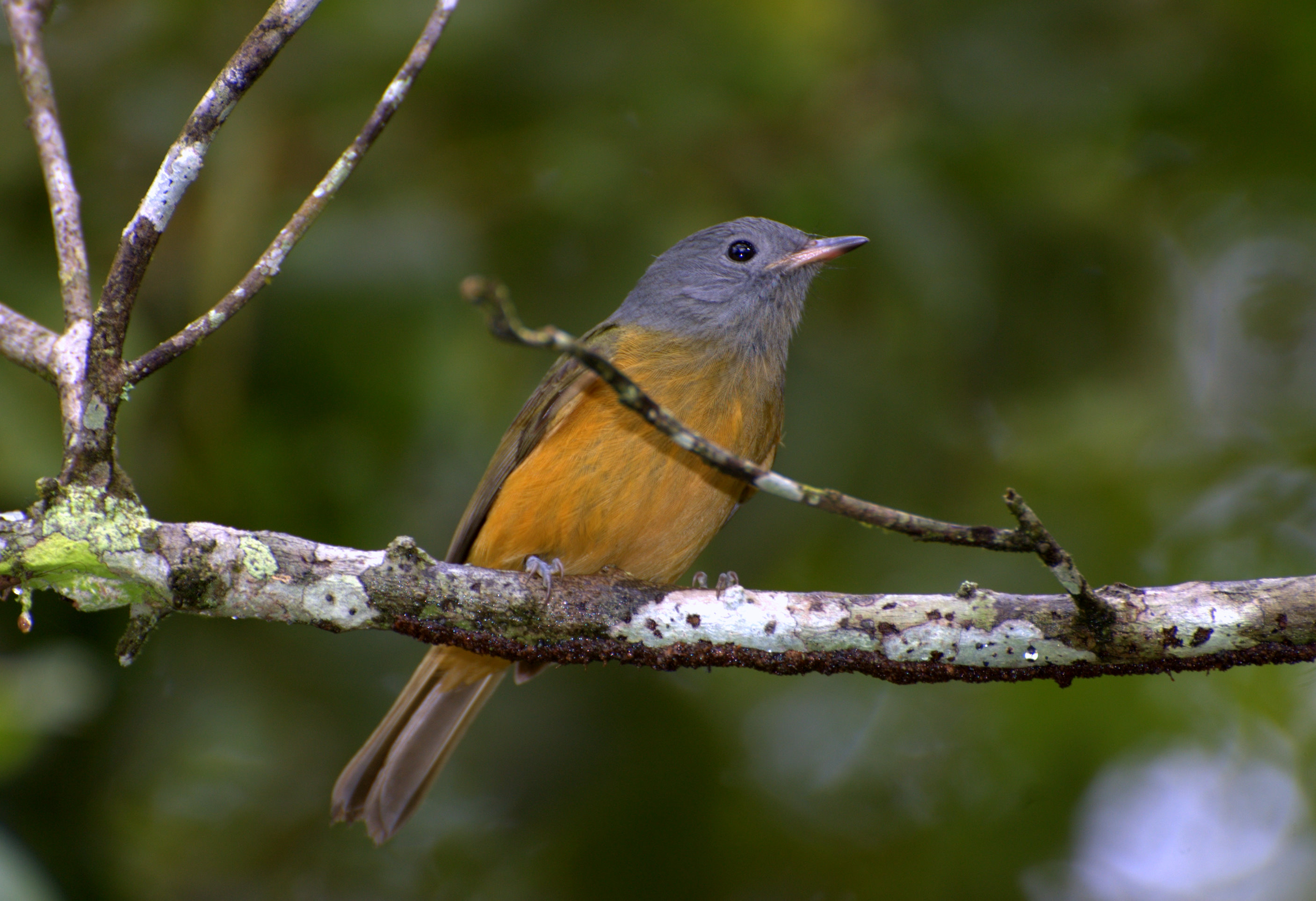 Grey-hooded Flycatcher (Mionectes rufiventris) Vale do ribeira - Registro-SP - Brasil